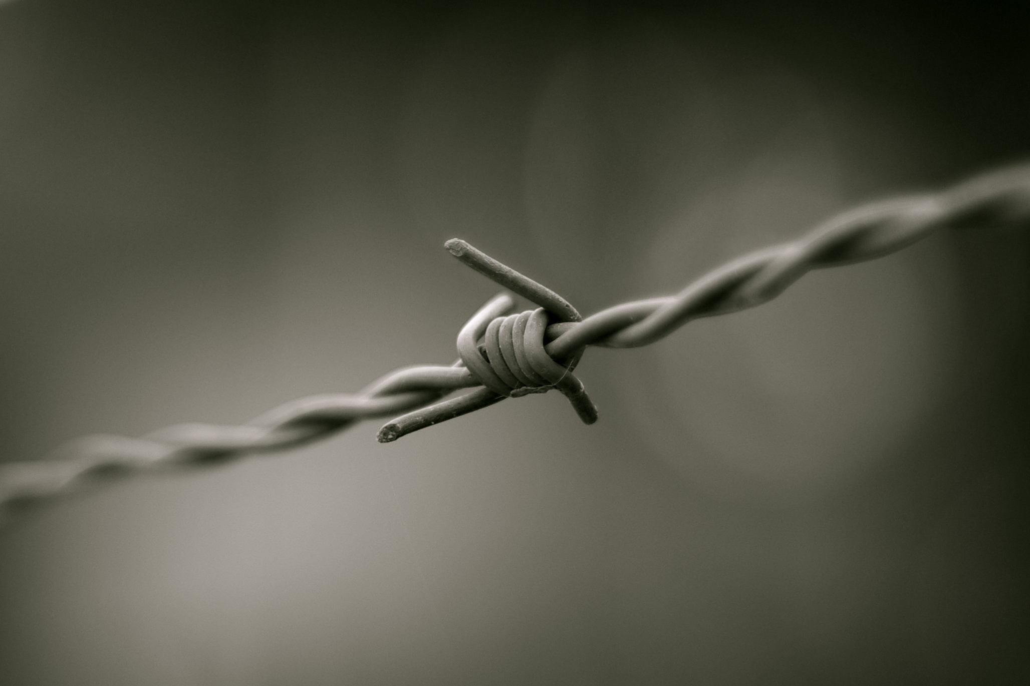 Barbed wire in black and white. This photo was taken during a visit at the KZ Herzogenbusch concentration camp, nearby Vught, the Netherlands.